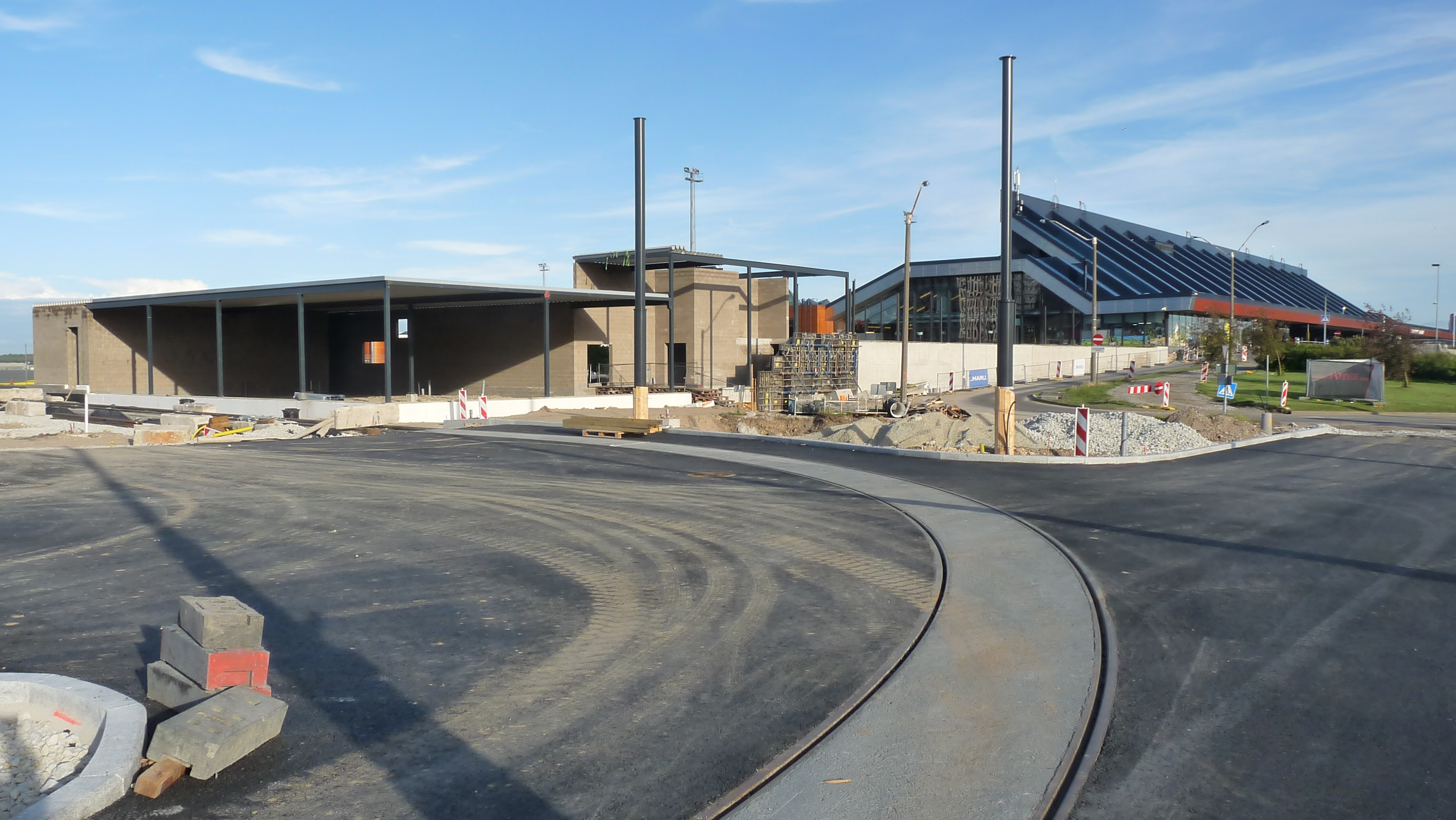 Tram track construction in Tallinn, Estonia